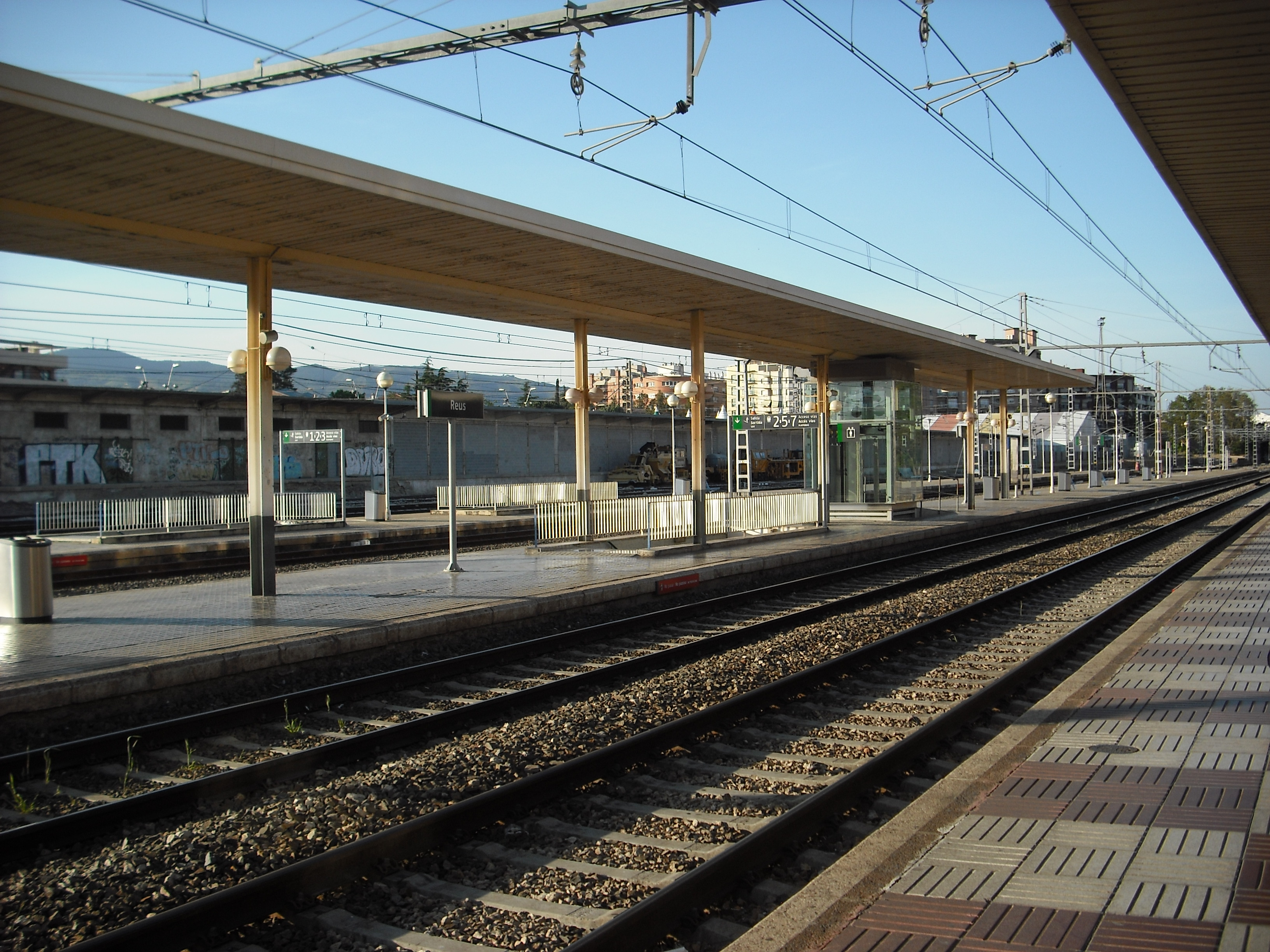 Railway station in Reus (Catalonia, Spain).